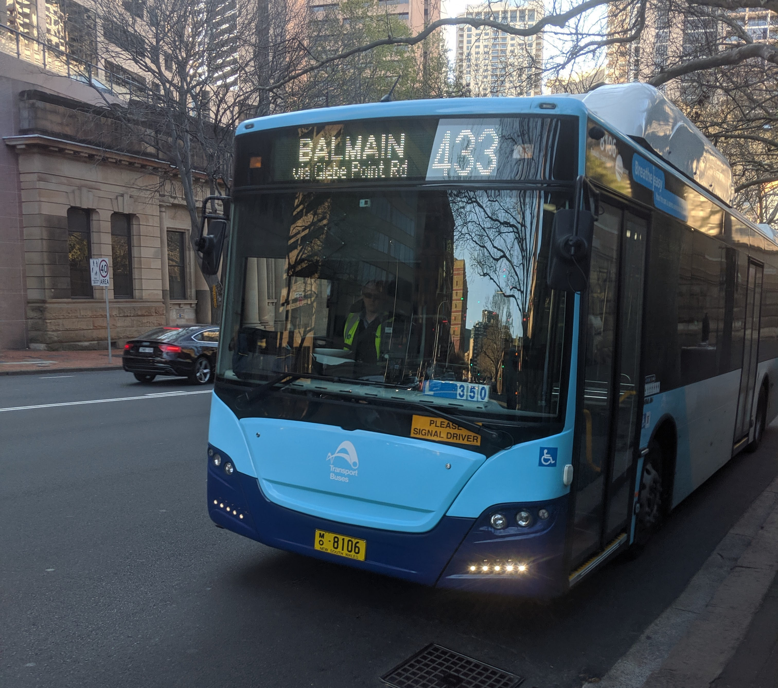 Electric Bus in Sydney, Australia